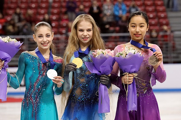 Photos – Junior World Championships 2018 – Ladies (Medalists)